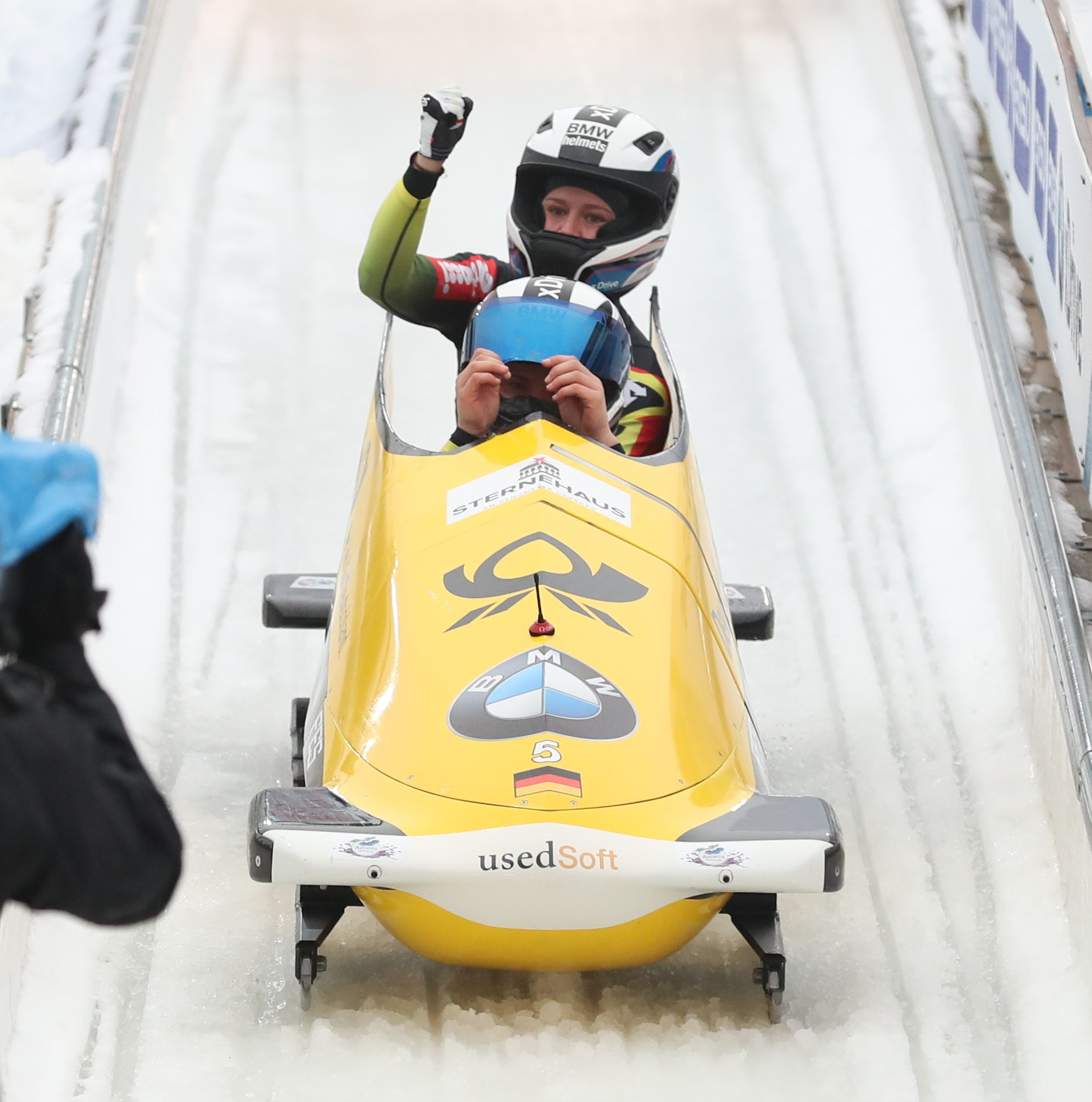 2-man Bobsleigh Women's World Cup race at the 2018/19 Bobsleigh World Cup in Altenberg